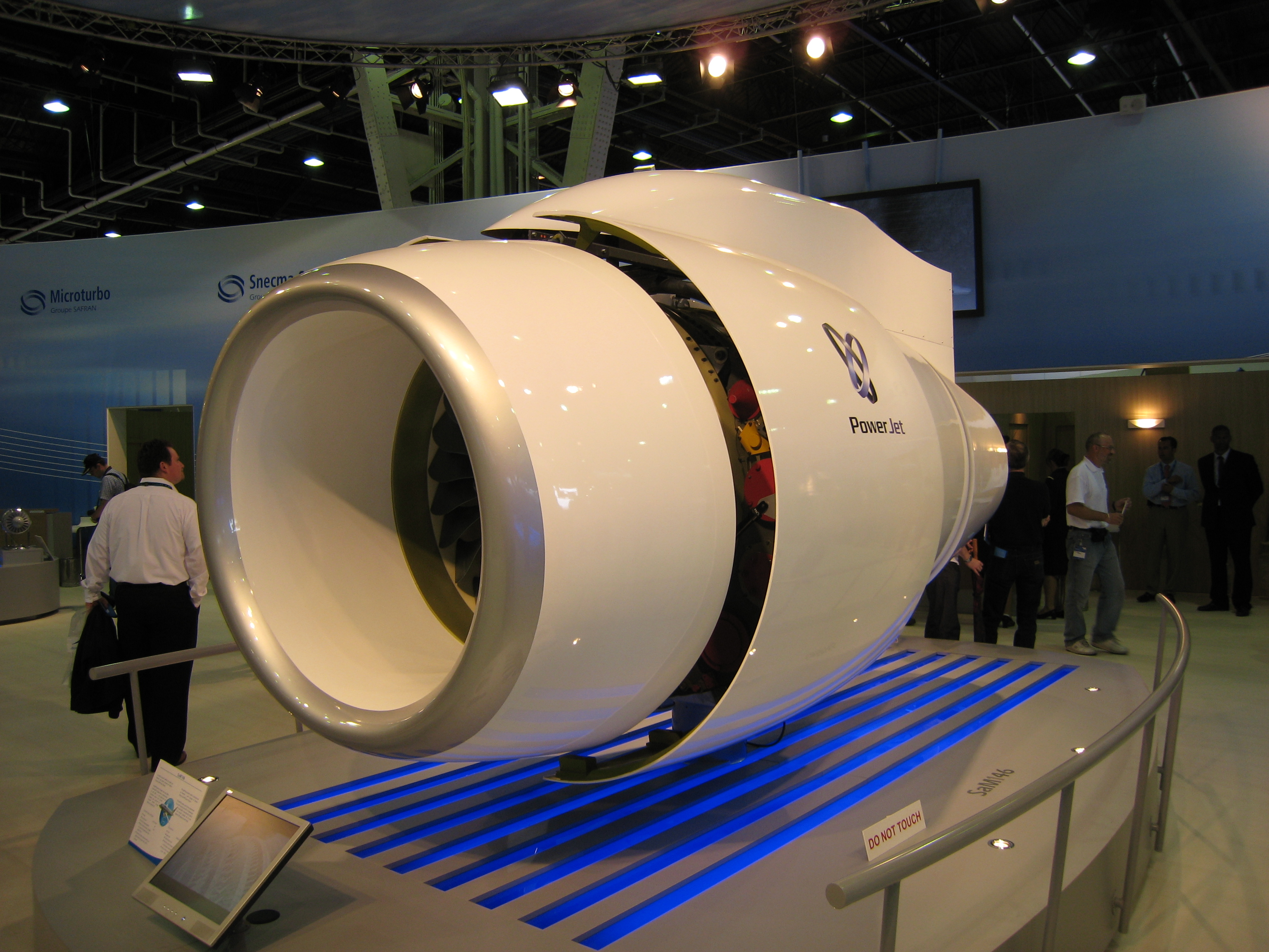 PowerJet SaM146 at Paris Air Show 2007